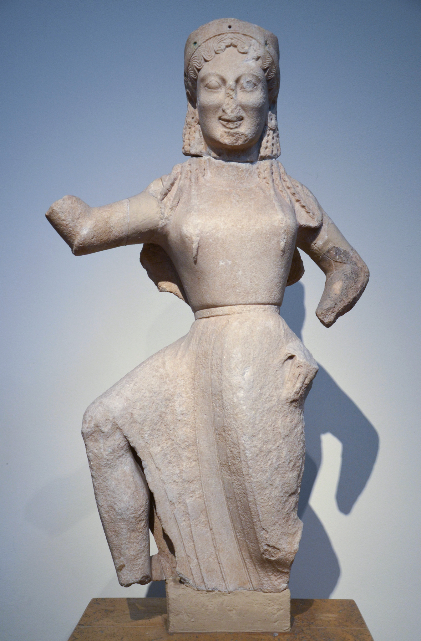 Statue of Nike, the earliest known stone free-standing statue of Nike, found on Delos, about 550 BC, National Archaeological Museum of Athens